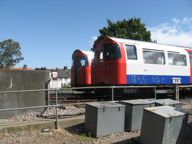 Tube trains in depot Two Bakerloo Line trains parked on sidings in Stonebridge Park depot